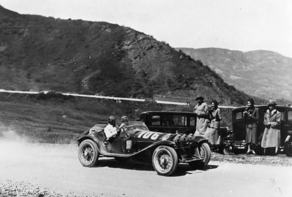 At Passo della Raticosa in Tuscany. We see entry #106 (and WINNER) in the Mille Miglia in Italy on 10 April 1932 was king Baconin Borzacchini (driver) and Amedeo Bignami (co-driver). They were part of Scuderia Ferrari and drove an Alfa Romeo 8C 2300 by Carrozzeria Touring.[1] Chassis number 2111033. NOTE: As of 2019, this picture is oftenly claimed to be Pintacuda in 1935 Mille Miglia, but the front lamp arrangment is clearly different.